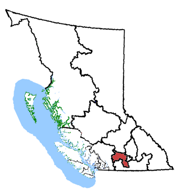 Map of the Okanagan—Coquihalla electoral district. Based on Earl Andrew's maps, created by SimonP.